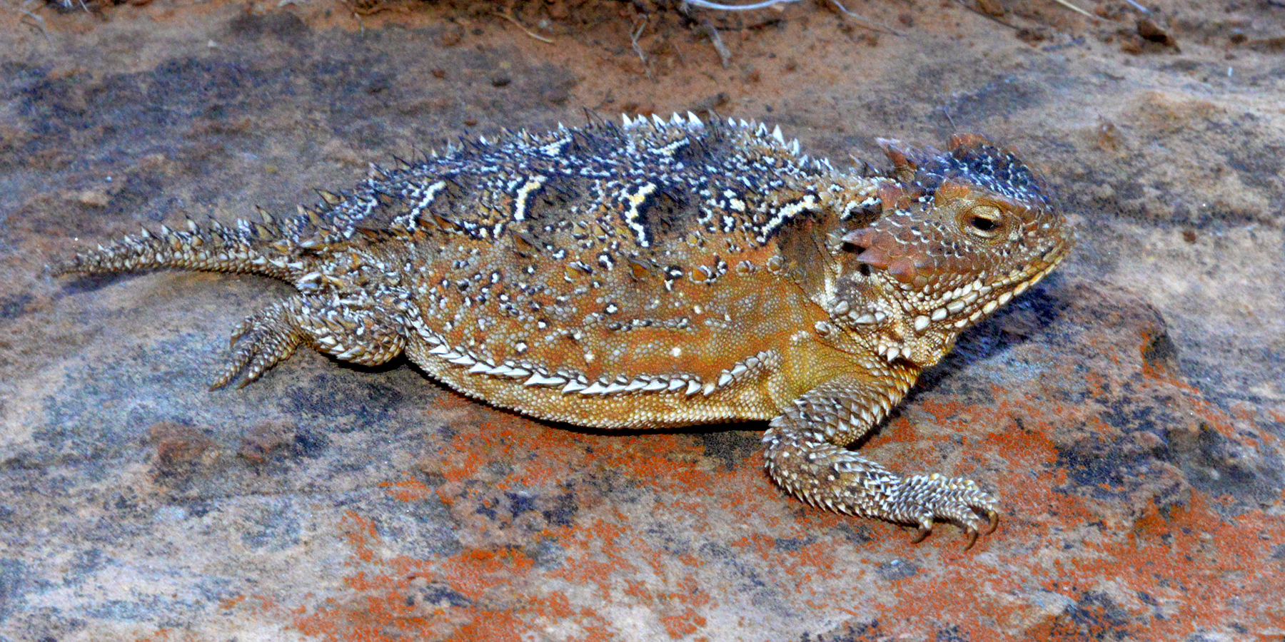 Mountain short-horned lizard (Phrynosoma h. hernandesi), Culberson County, Texas, USA. This lizard was photographed in the field on the natural rocks and soils where it was found, on 19 May 2018 by William L. Farr